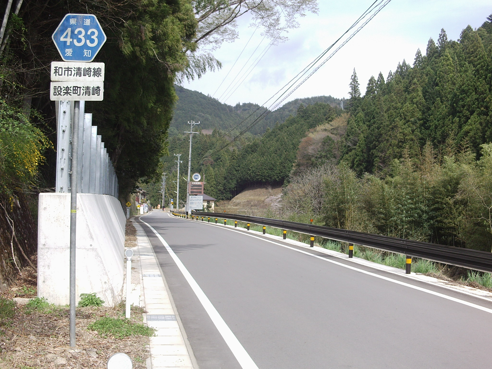 Aichi prefectural road No.433 in Kiyosaki, Shitara-cho, Kitasitara-gun, Aichi.